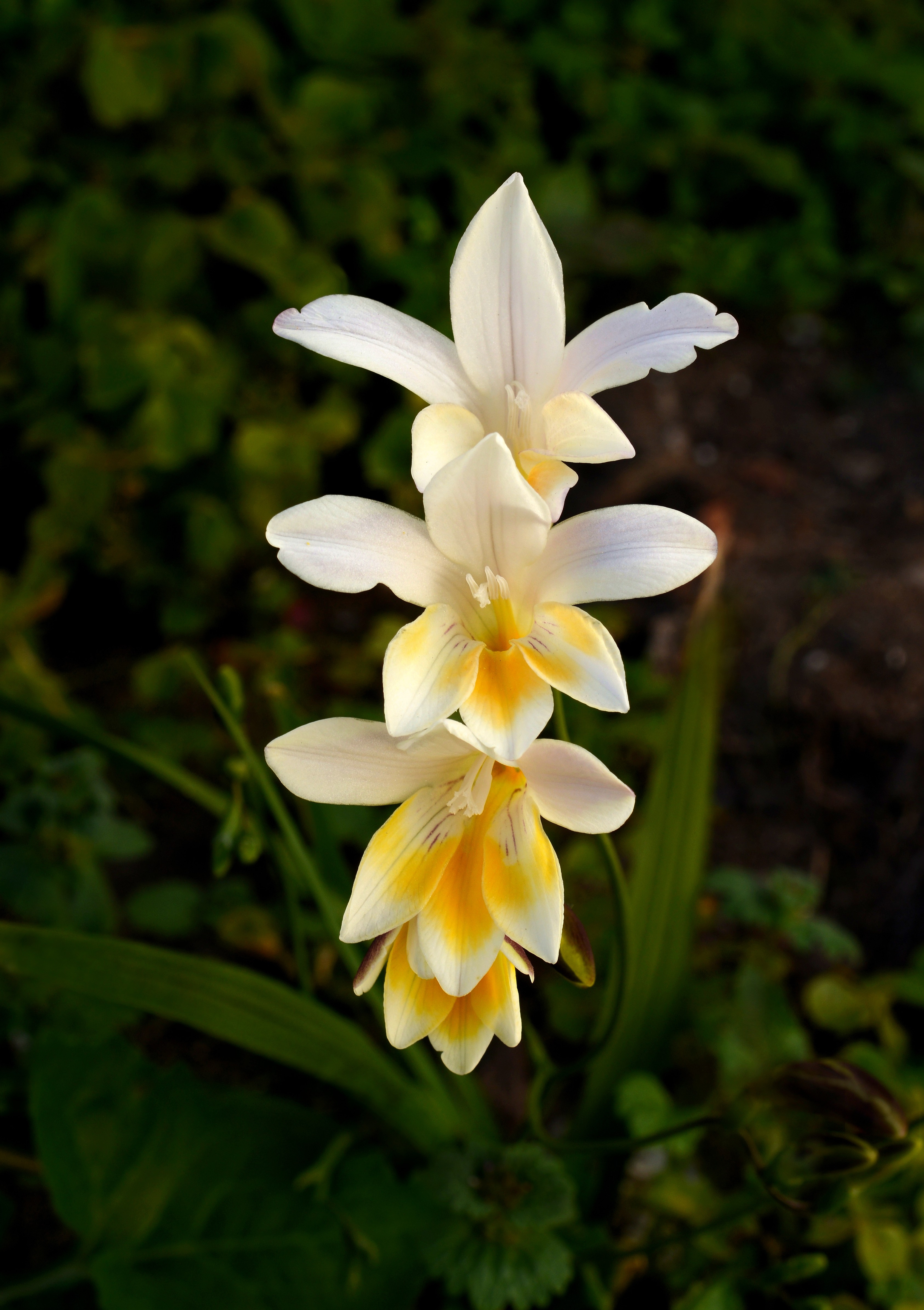 Cluster of Freesia alba flowers